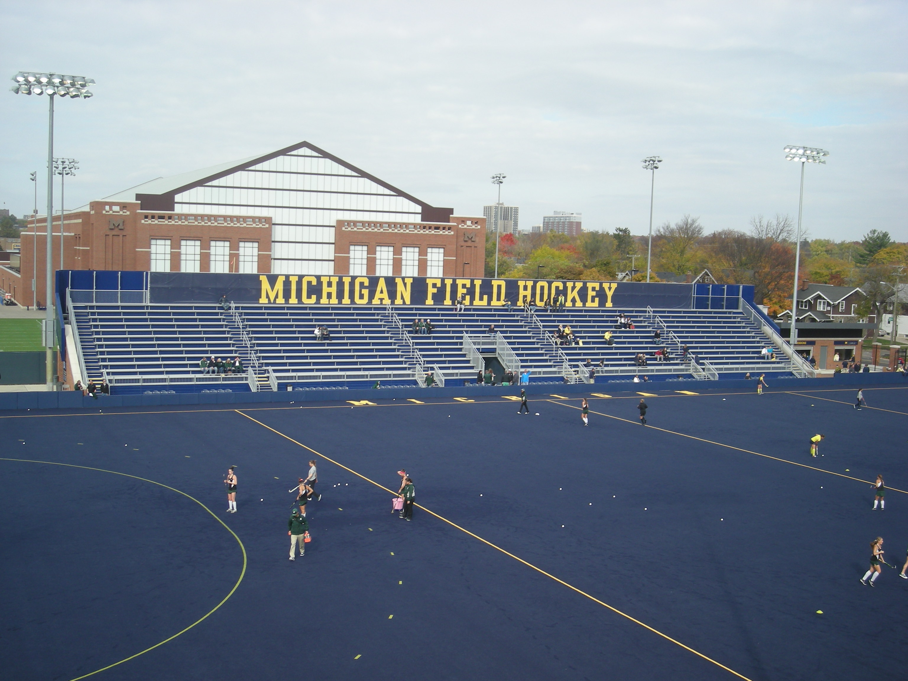 The field before the Michigan State Spartans vs. Michigan Wolverines field hockey game at Ocker Field in Ann Arbor, Michigan (United States). Michigan State won 2–1.